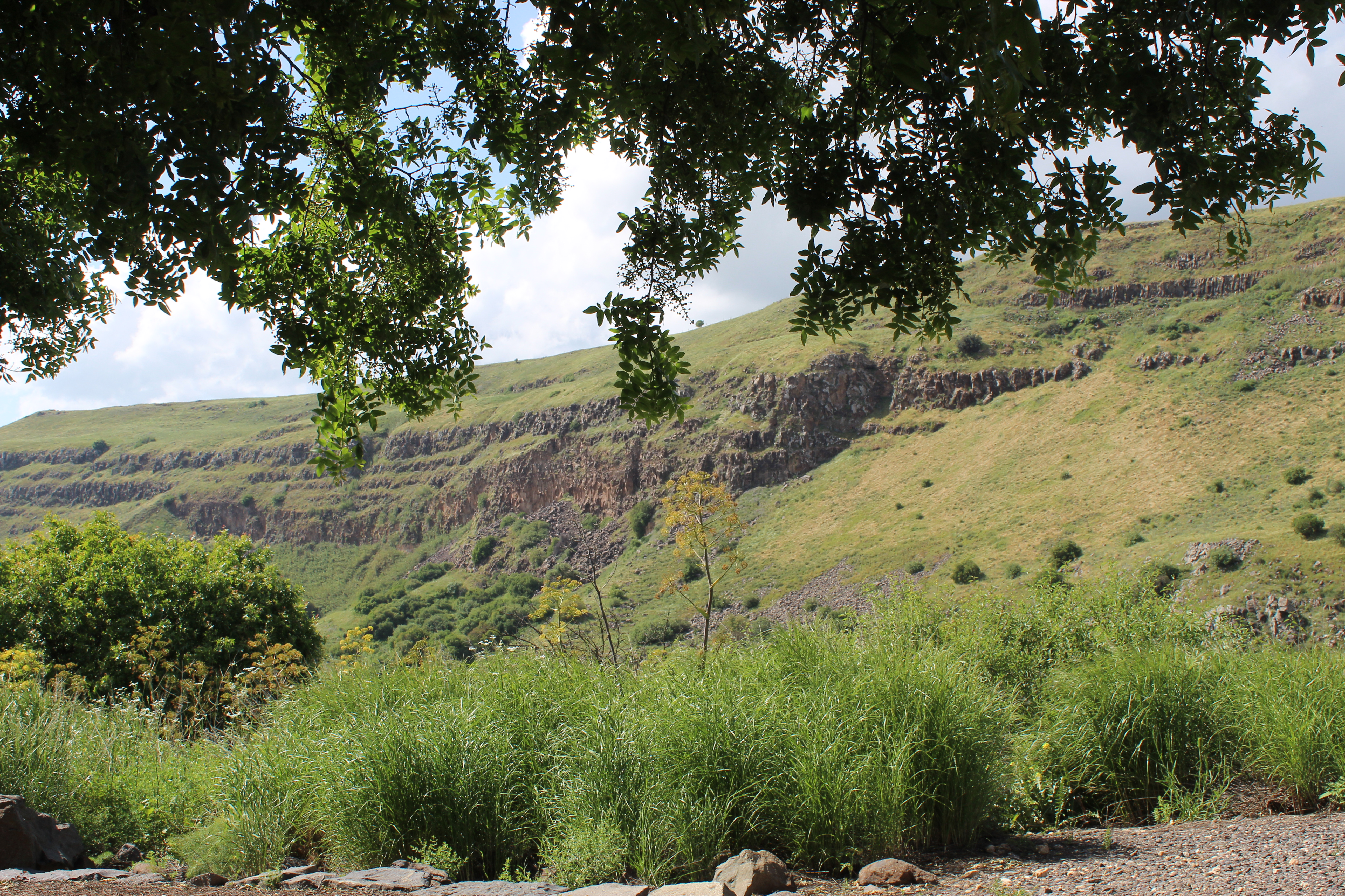 Mountainous terrain as seen on Gamla's west side